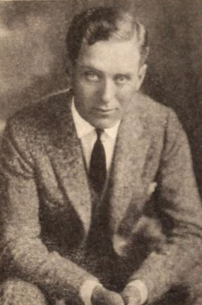 Director Nate Watt (1889 – 1968), on page 40 of the November 6, 1920 Exhibitors Herald.